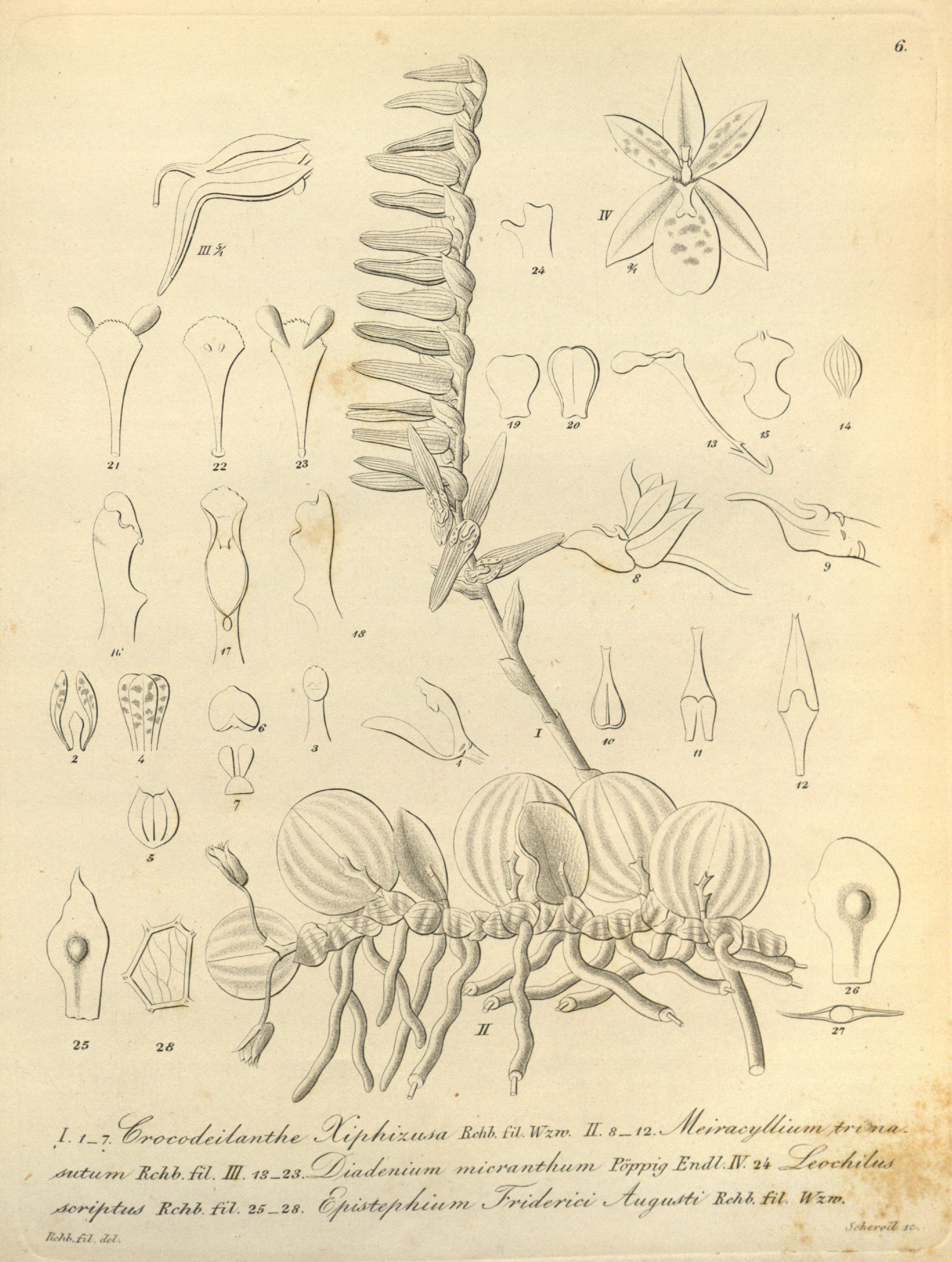 Illustration of Stelis xiphizusa (as Crocodeilanthe xiphizusa), Meiracyllium trinasutum, Diadenium micranthum, Leochilus scriptus and Epistephium frederici-augusti